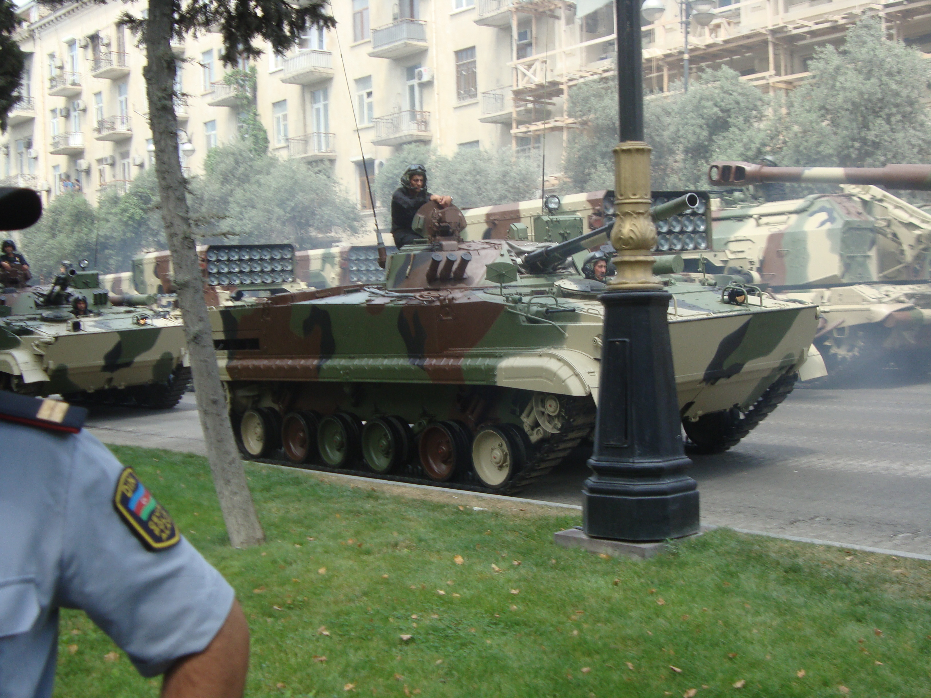 Azeri BMP-3